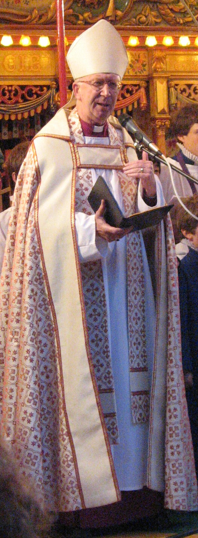 John Pritchard at the 2007 St Giles' Fair